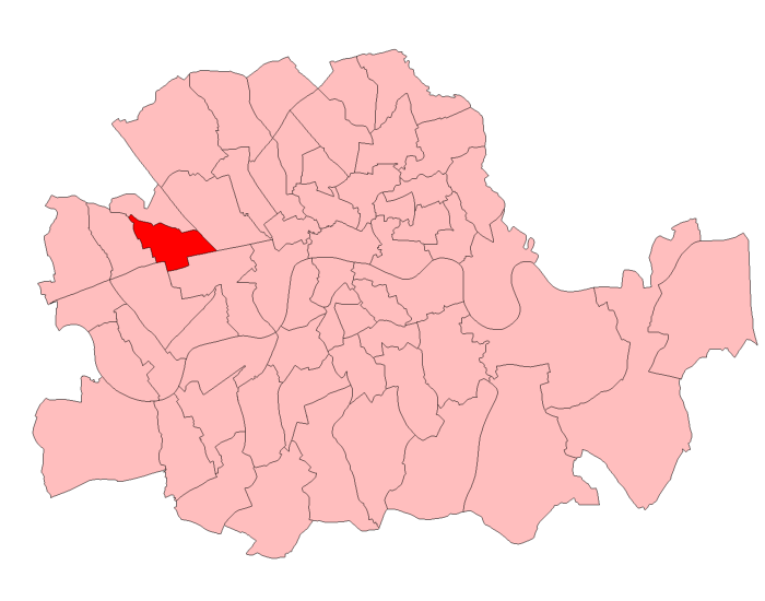 A map of Paddington South constituency within the London County Council area, as it existed from 1918 to 1949.